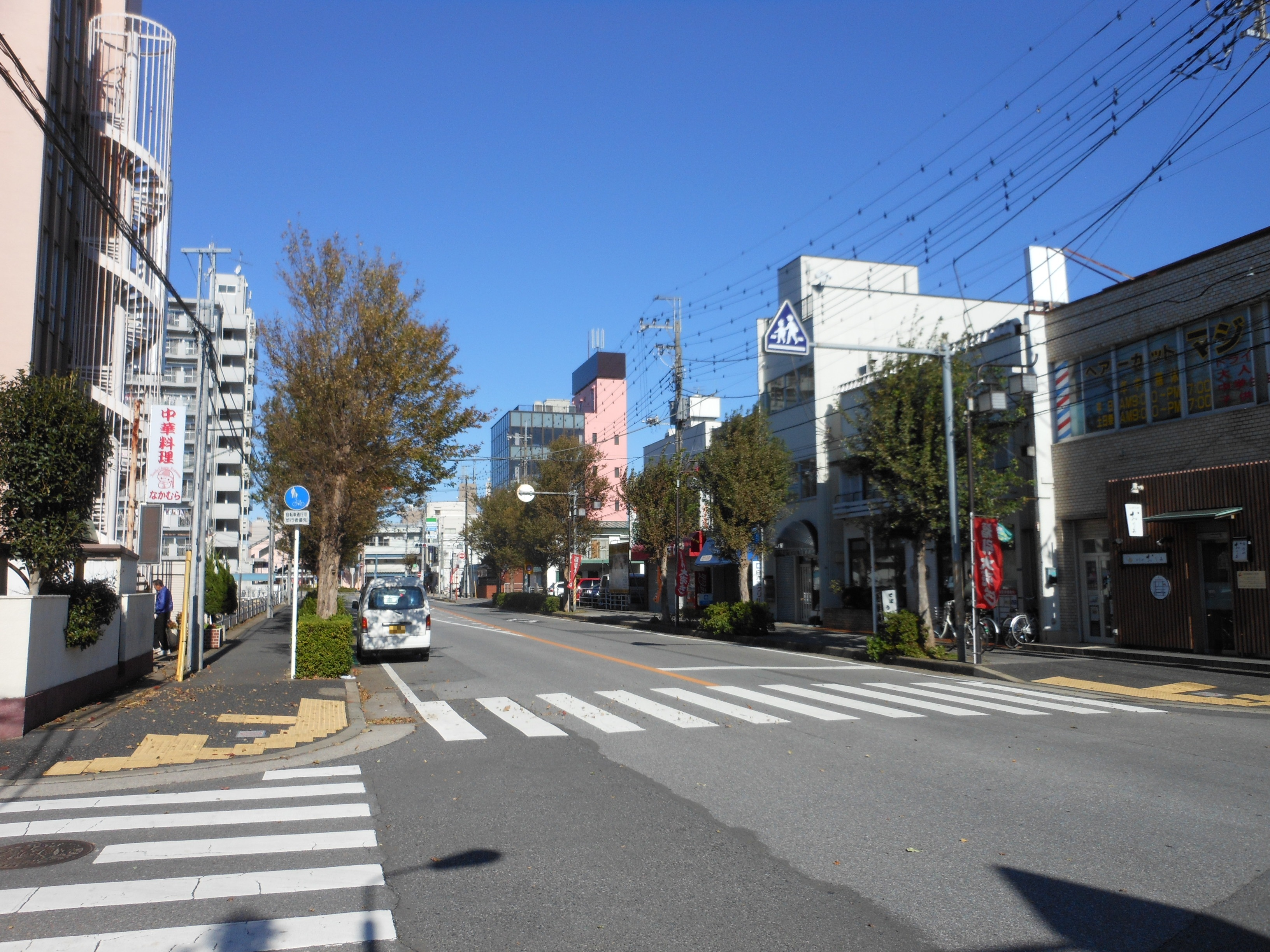 This is a landscape of Tennodai 1 chome, Abiko, Chiba, Japan.